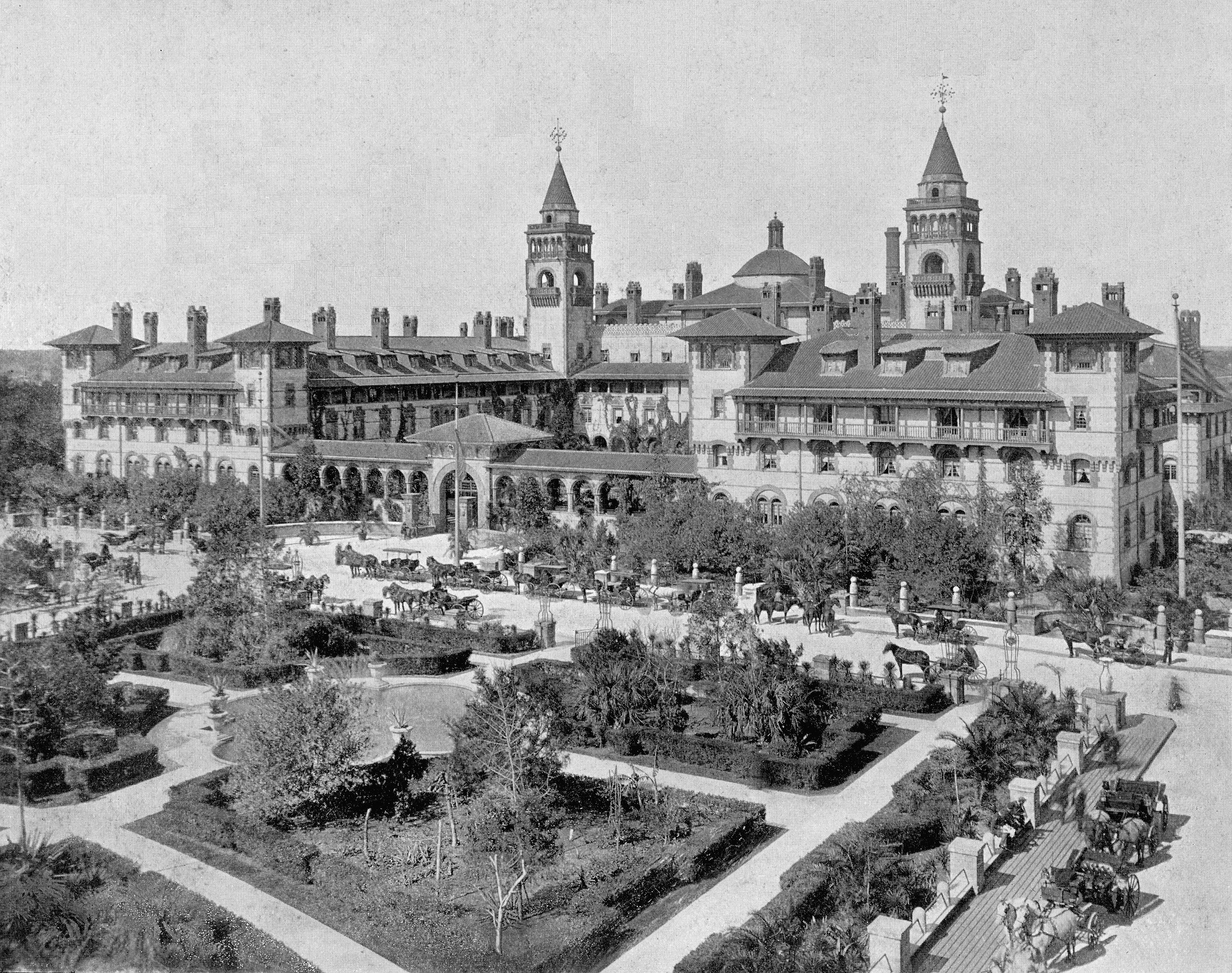 The Ponce de Leon Hotel in St. Augustine, Florida, in about 1901.